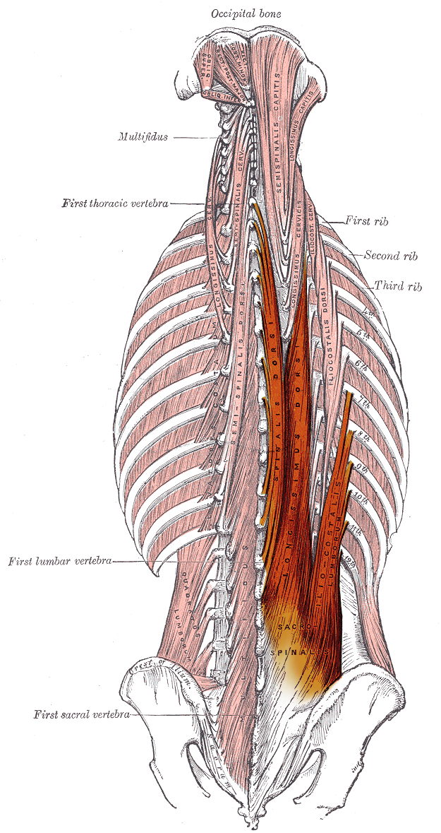 Reproduction of a Gray's anatomy plate with the muscles of the erector spinae muscle group highlighted